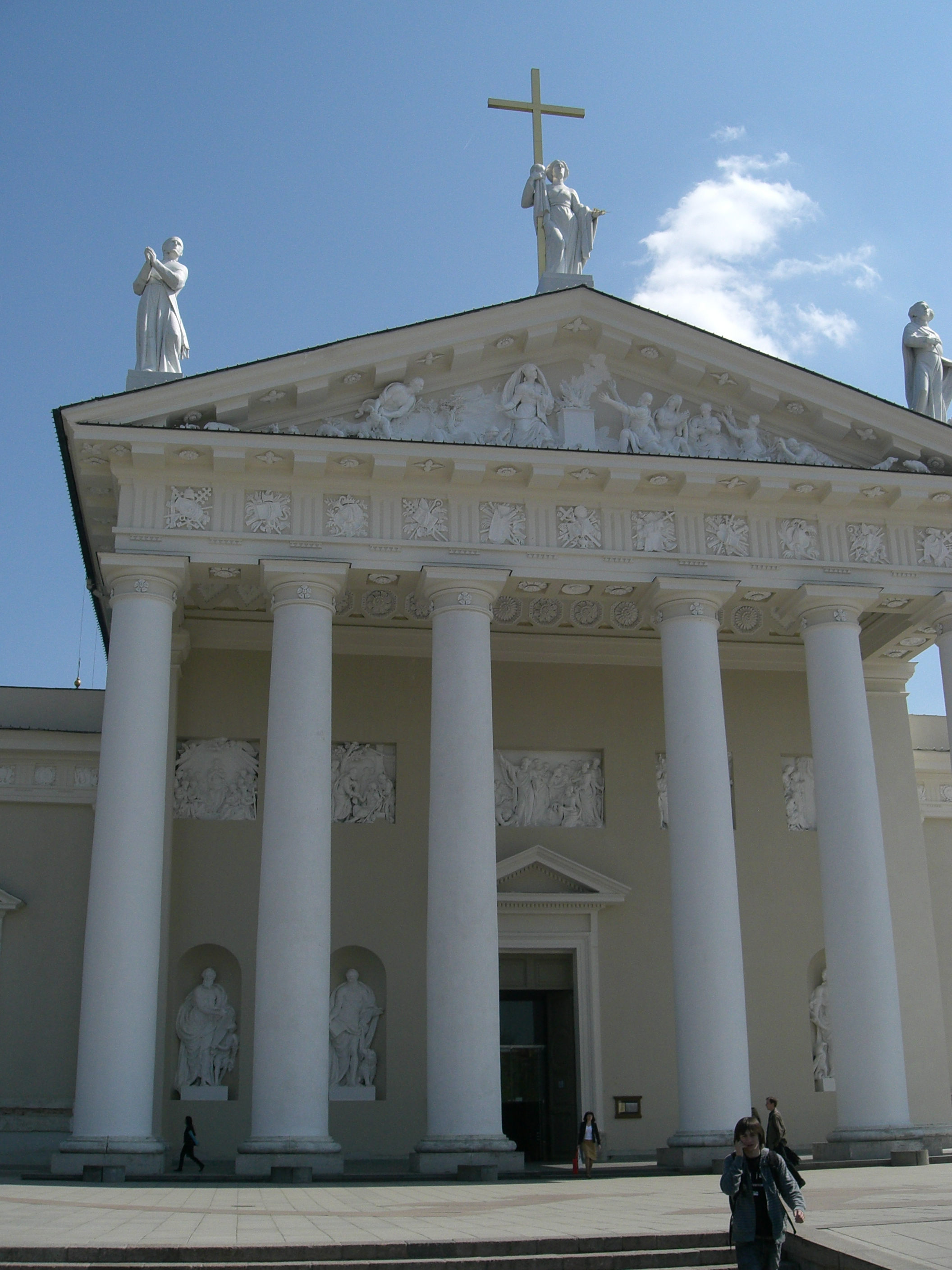 Vilnius Cathedral, Lithuania.